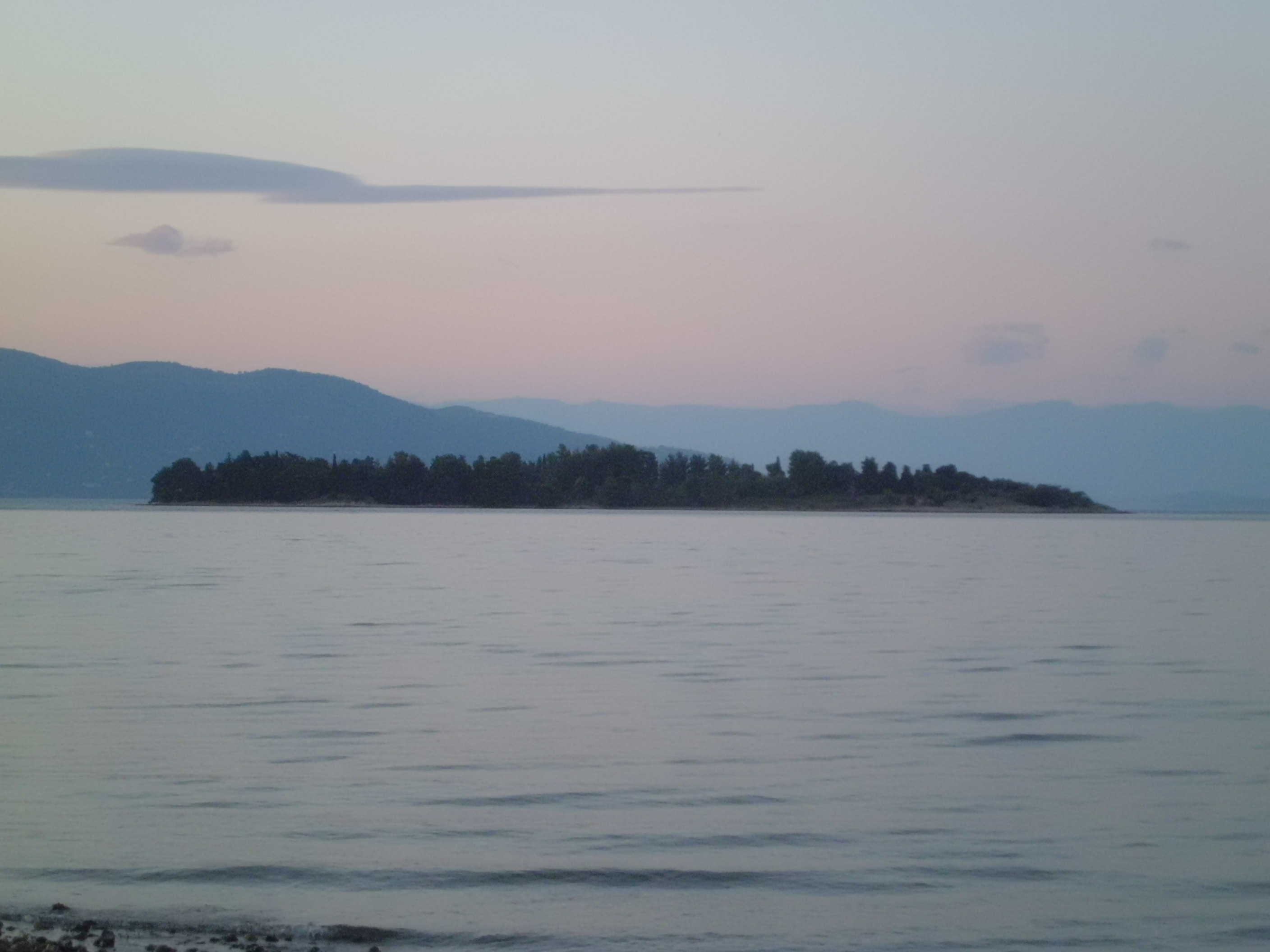 Please see filename